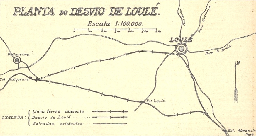 Map showing the proposed deviation of the railway line between the Boliqueime and Almancil-Nexe stations, to better serve the town of Loulé. This project was based on field work made by the engineer Albino Machado da Encarnação in 1926. Is wasn't fulfilled. This image was published on the Gazeta dos Caminhos de Ferro magazine No. 1238, of the 16th July 1939, and scanned by the Hemeroteca Municipal de Lisboa.